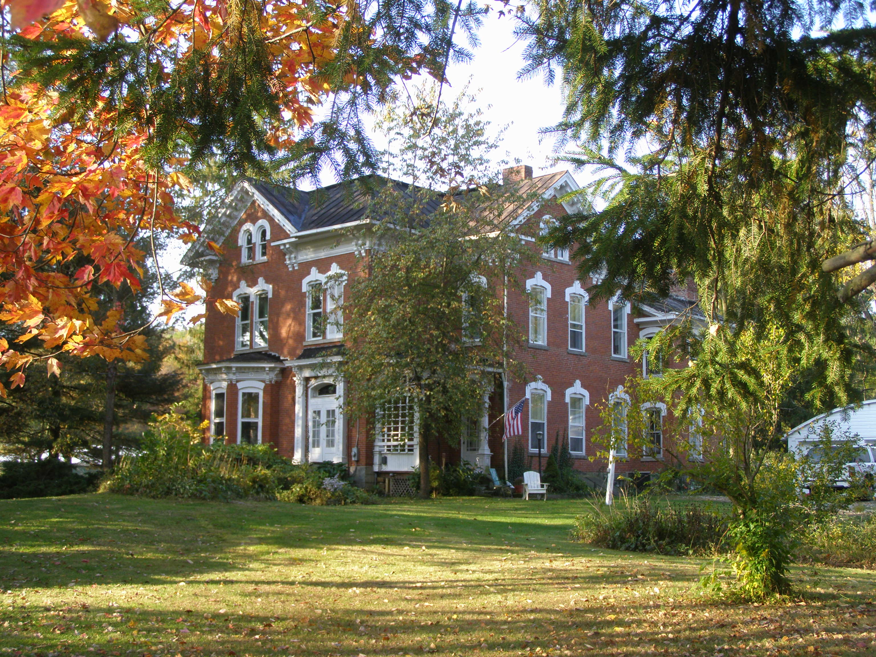 Joseph L DeYarmon House, Lakeville, Holmes County, Ohio